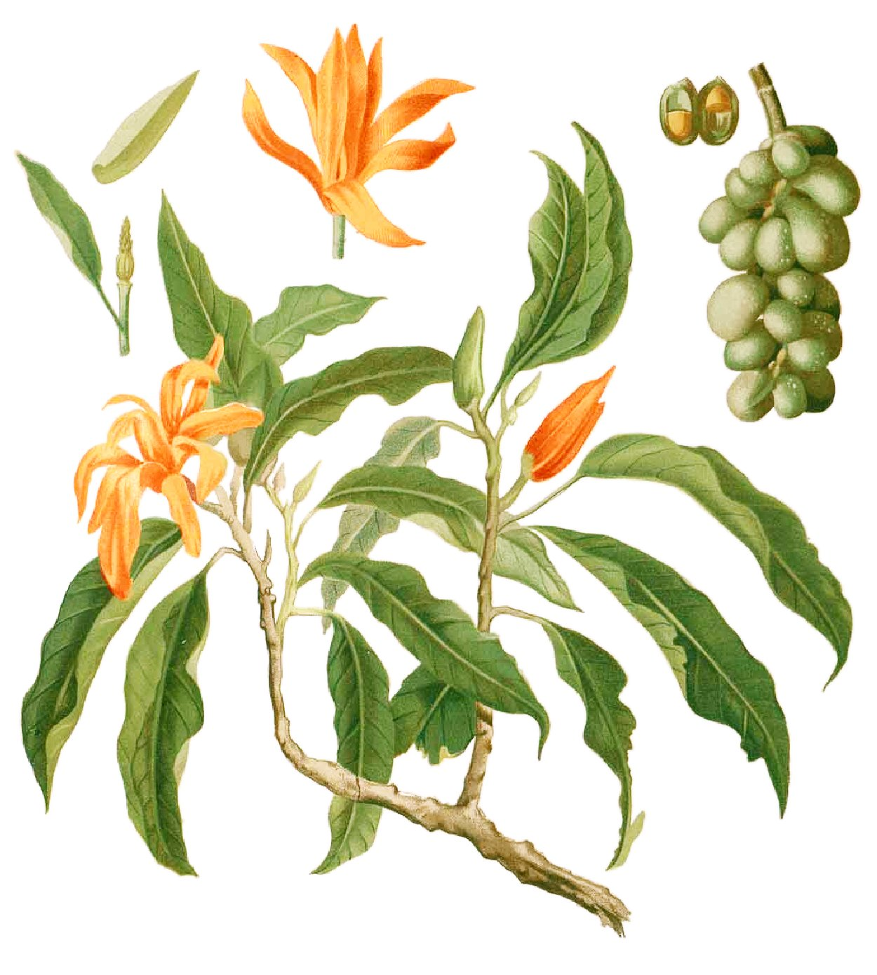 Plate of flowers and seeds of Magnolia (Michelia) champaca from Flora de Filipinas, Atlas I